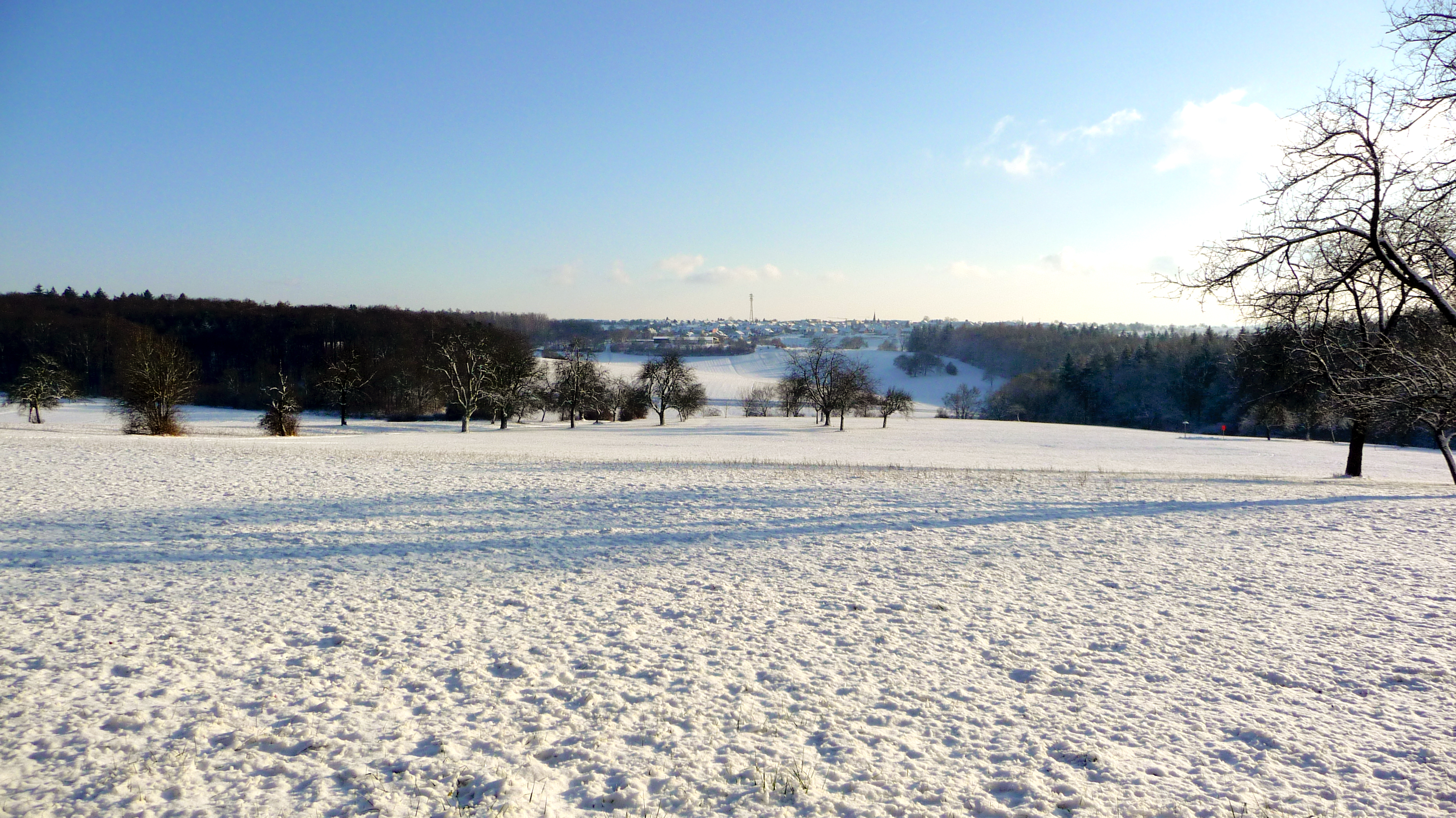 Neulingen in Baden-Württemberg in winter